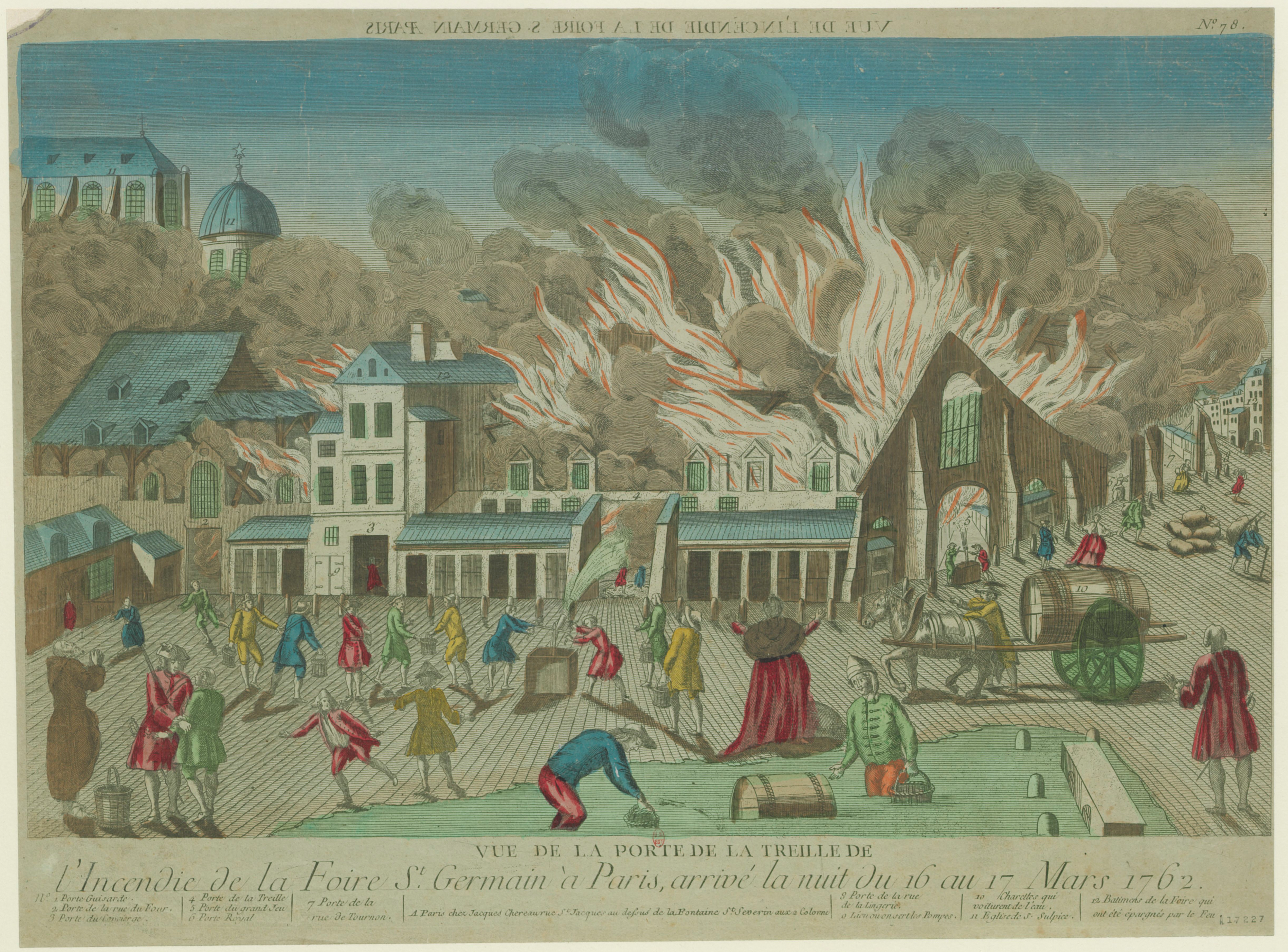 Engraving with a view (looking south) of the fire at the Foire Saint-Germain on the night of 16 to 17 March 1762 (published in Paris by Jacques Chereau, rue St. Jacques). The Saint Sulpice Church is visible in the background. The engraved upper part of the print is reversed, so that the title at the top is a mirror image and Saint-Sulpice is to the left rather than the right.